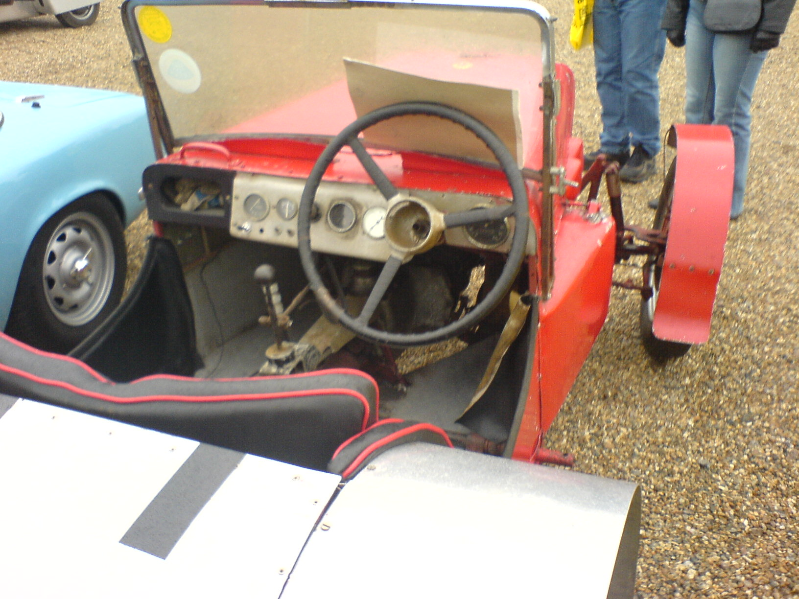 Lotus Mk2 Cockpit at the Lotus Brands Hatch Celebration 2007